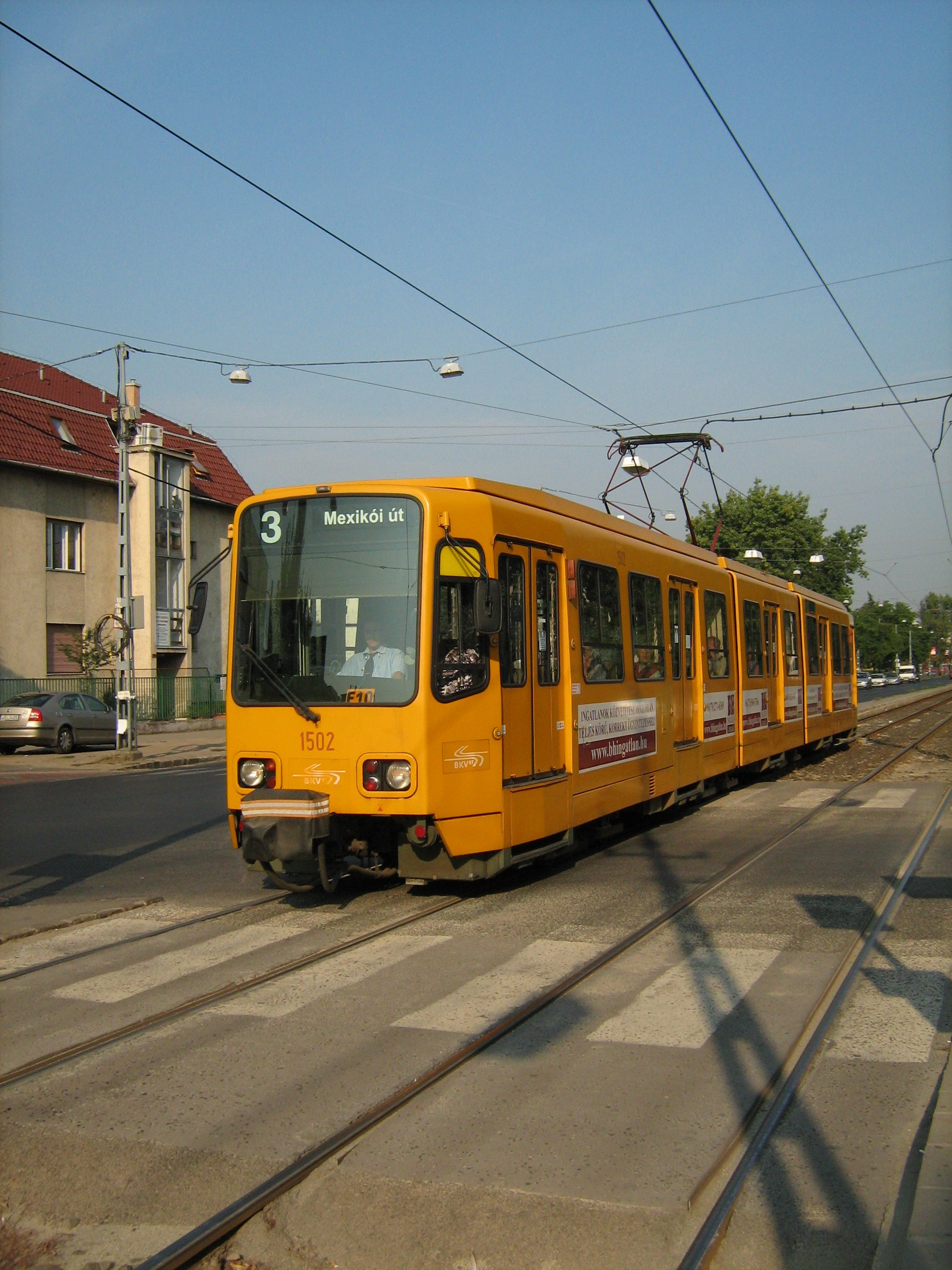 Tram in Budapest. September 2009.